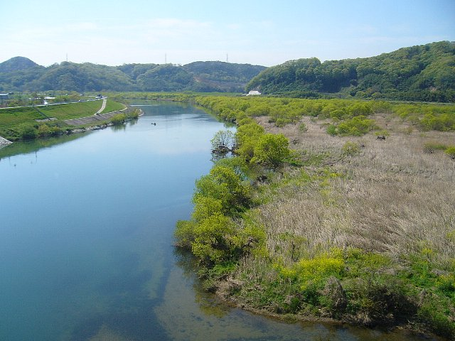 A view of the Takahashi River near Kiyone-son, Soja, Okayama Prefecture, on the Ibara Railway line between Kiyone Station and Kawabejuku Station.